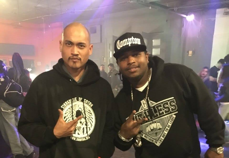 Knife & Lil Eazy-E